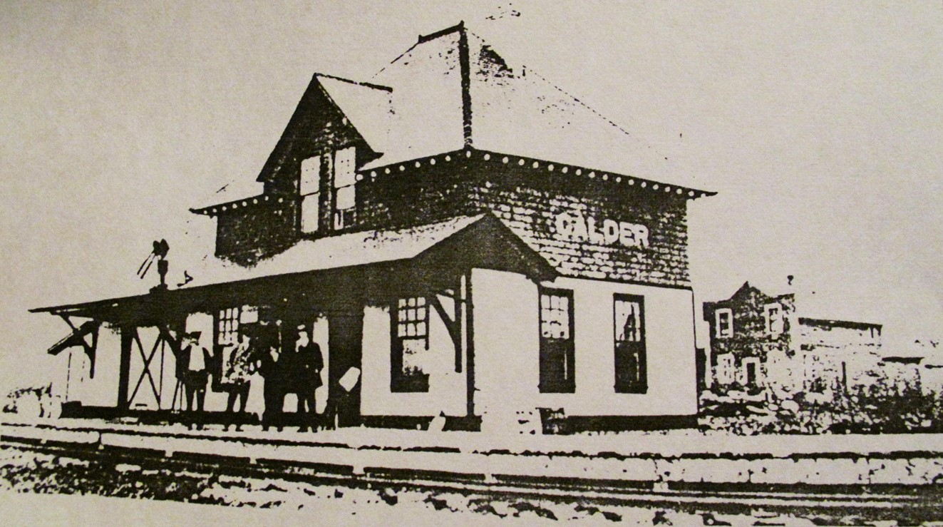 Main station in Calder, Saskatchewan, Canada, in 1916